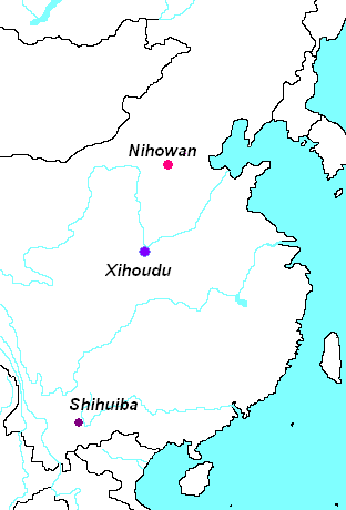 Palaeoanthropological and Palaeolithic sites in Miocene, (Pliocene) and Lower Pleistocene China